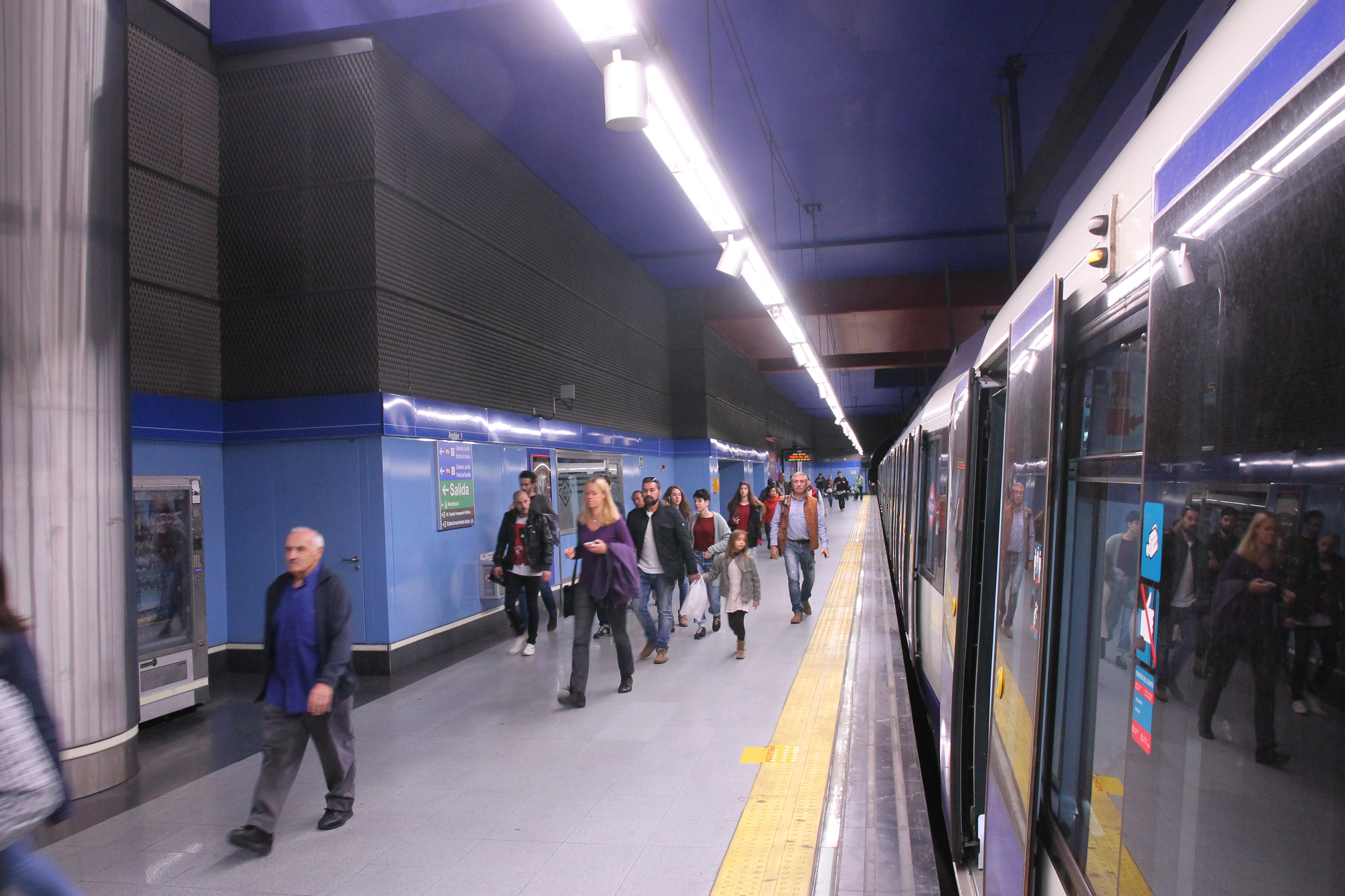 Colonia Jardín metro station, line 10, Madrid